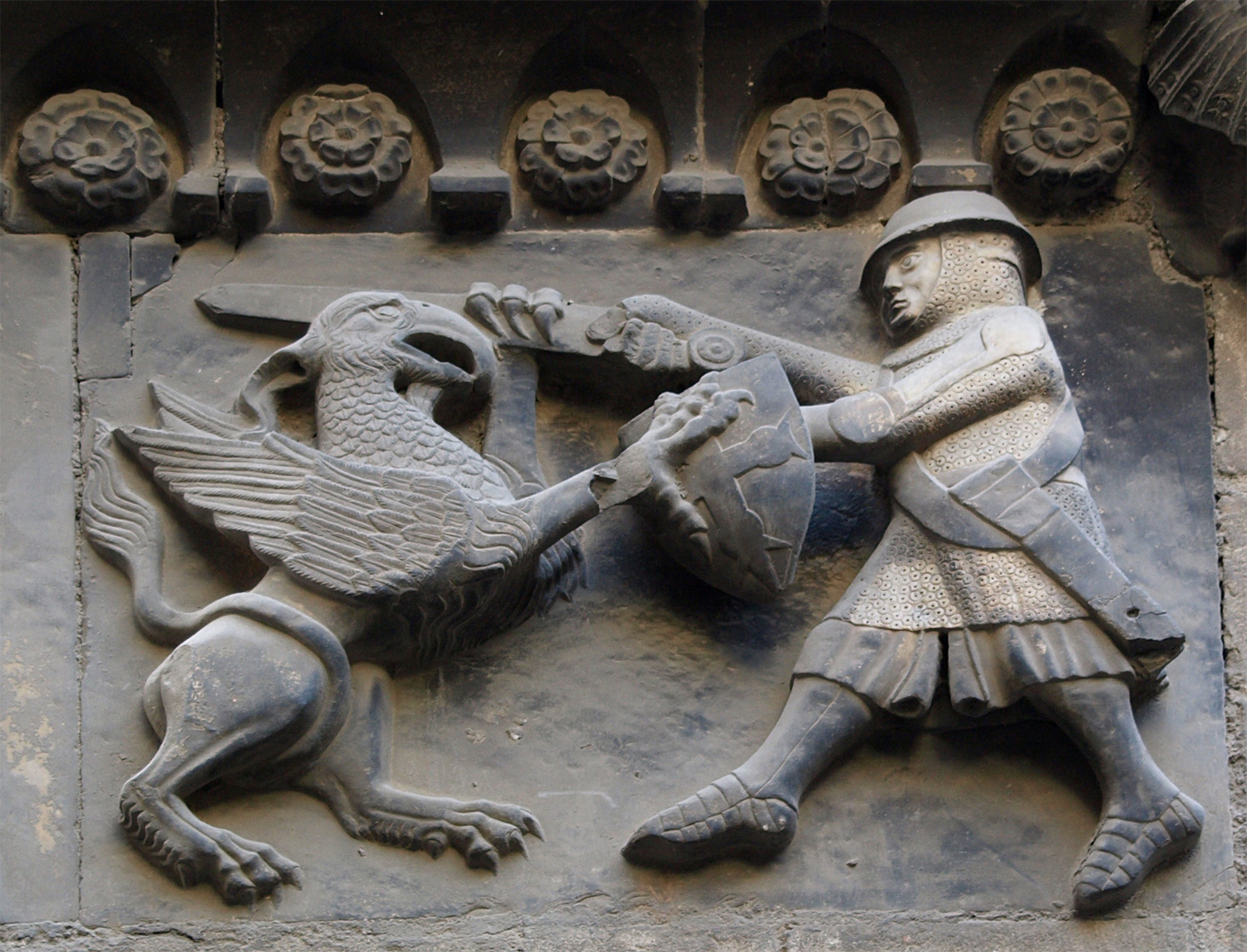 Catedral de Barcelona - Door of Sant Iu